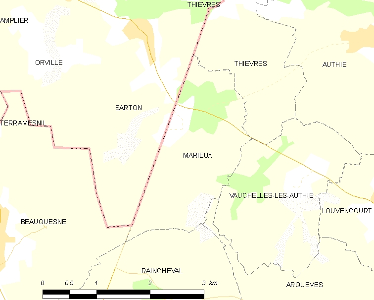 Map of French municipality Marieux